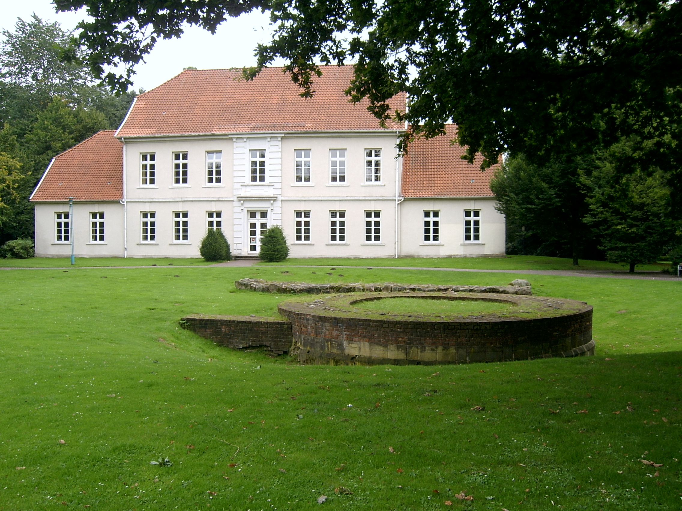 The remains of the old castle of Cloppenburg, Germany - the castle are the rocks in the foreground.